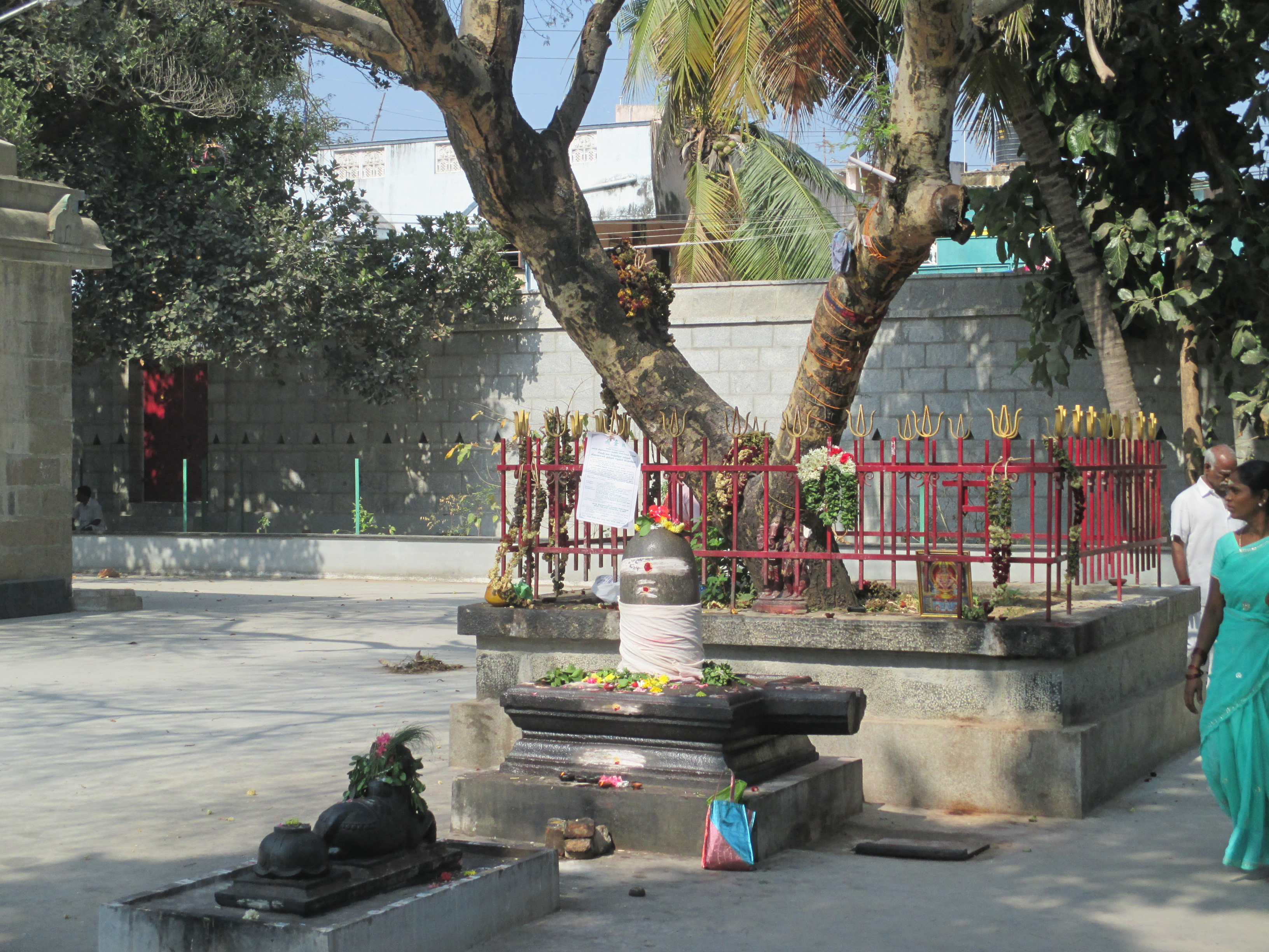 Vedapureeswar temple, Thiruverkadu